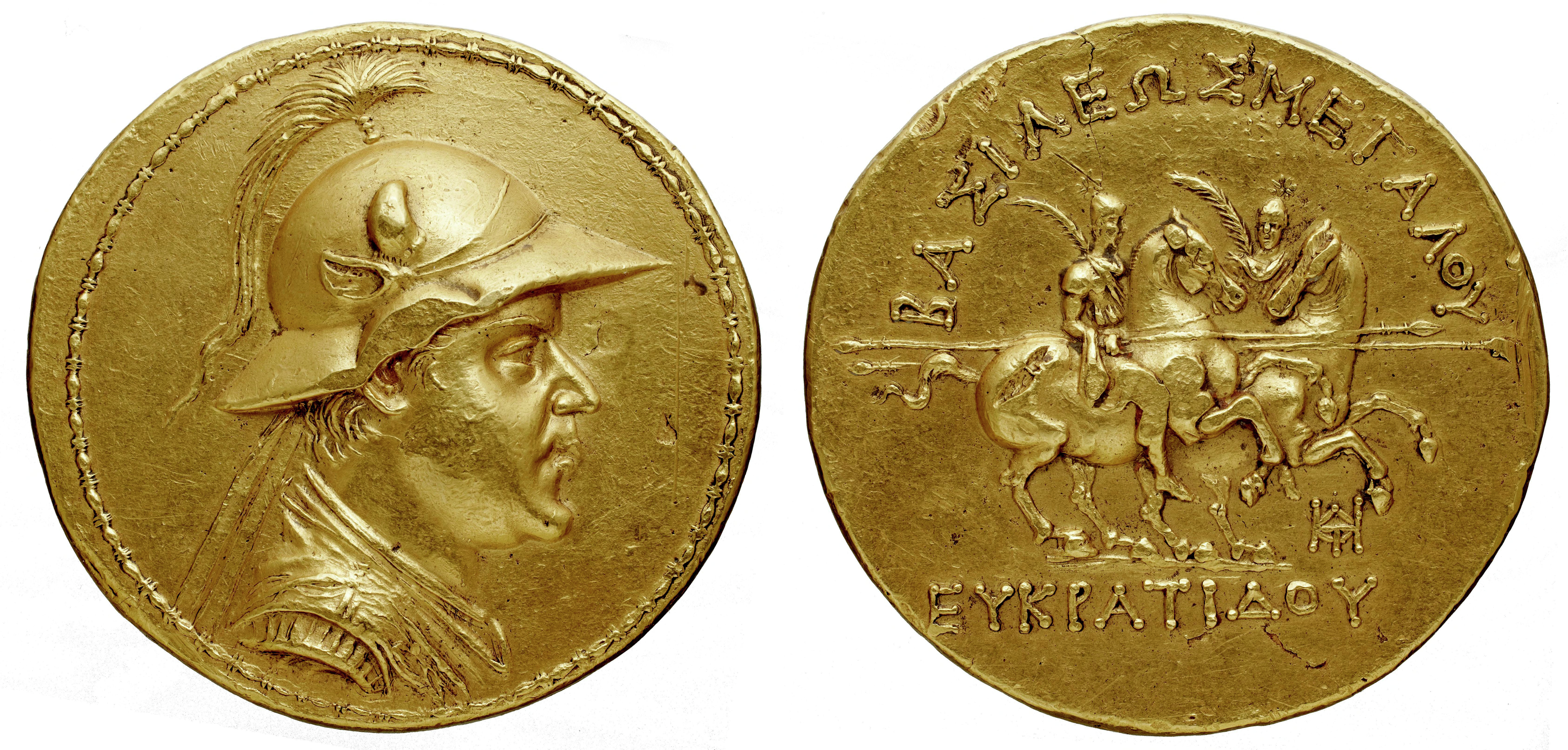 Gold 20-stater of Eucratides, the largest known gold coin from antiquity. The coin weighs 169.2 grams, and has a diameter of 58 millimeters. It was originally found in Bukhara, Uzbekistan, and later acquired by Napoleon III. Cabinet des Médailles, Paris.